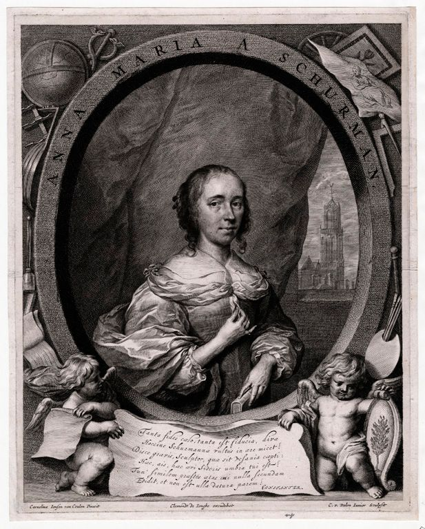 This is an engraved print by Cornelis van Dalen the Younger after the painted oil portrait by Cornelis Jonson van Ceulen. Both the print and the painting are in the National Gallery of Art, Washington, DC.